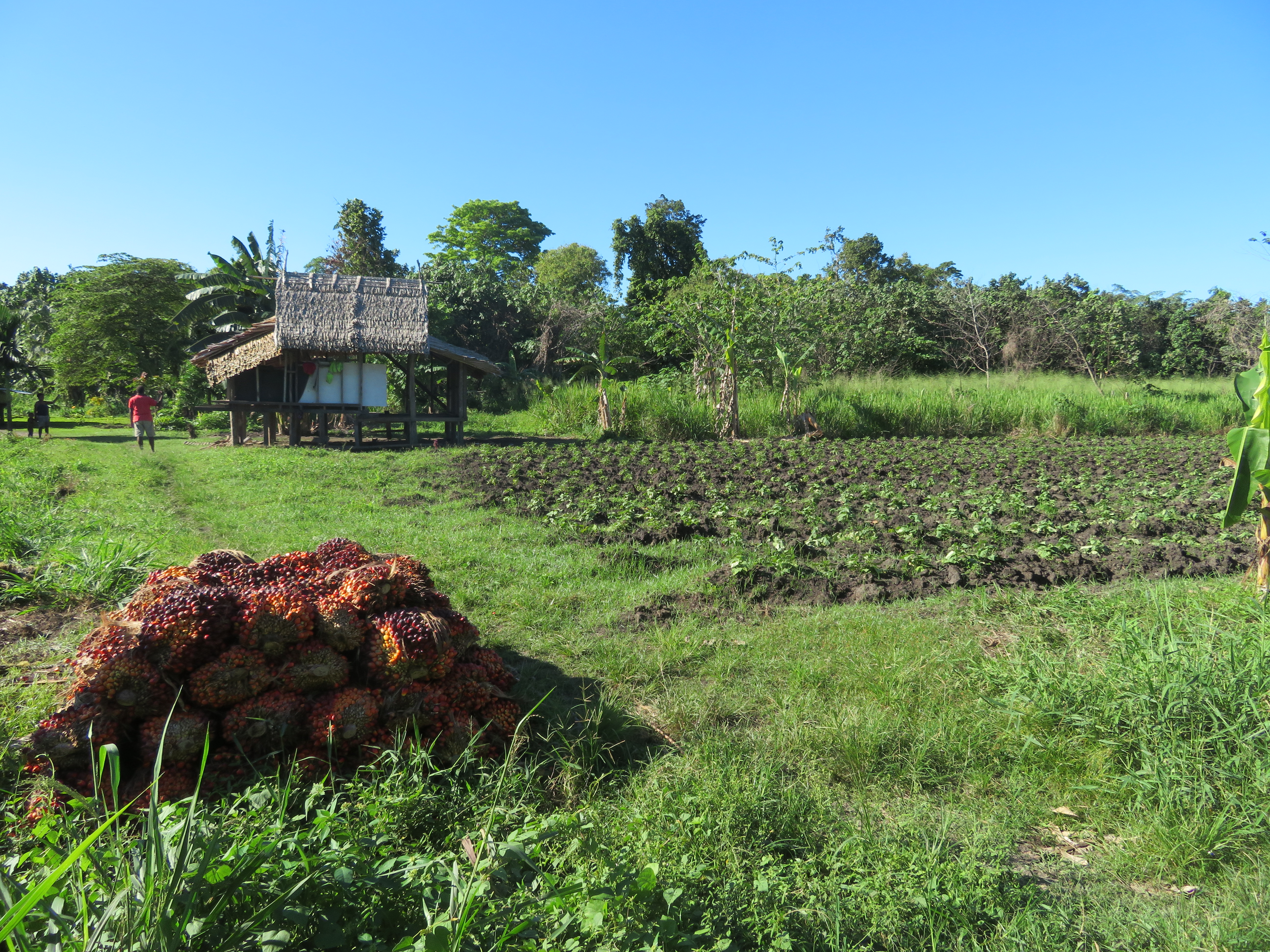 Tetere, oil palm fruit and field, Guadalcanal, Solomon Islands